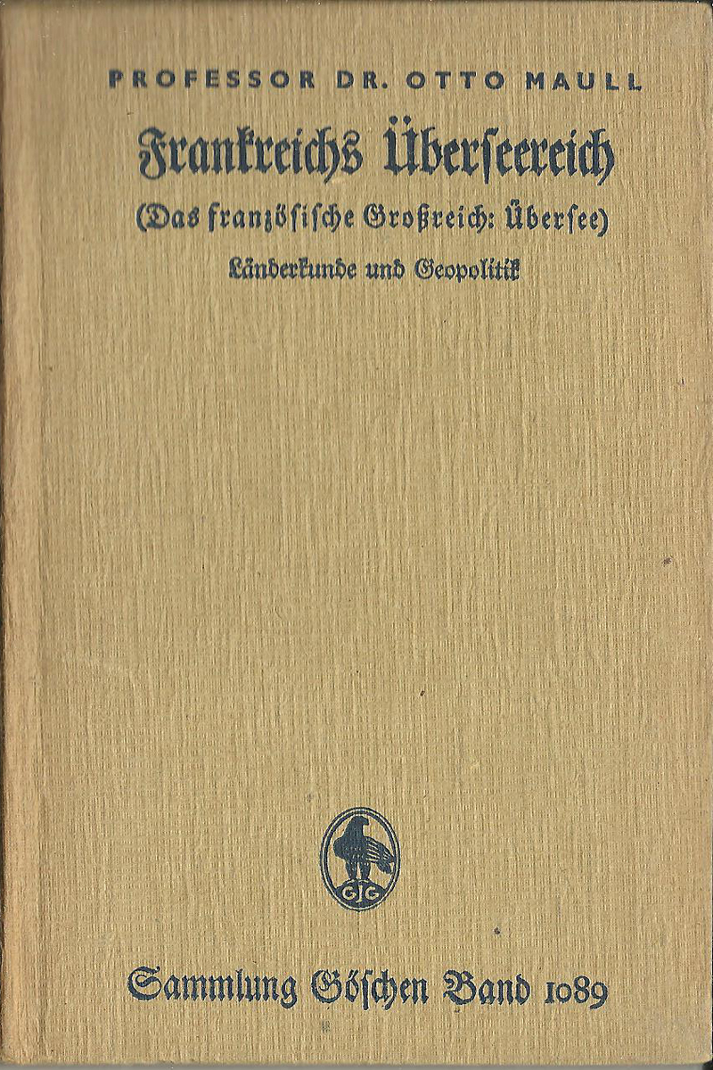 Front cover of Otto Maull's book Frankreichs Überseereich (French Overseas empire), Volume 1089 of the Goeschen collection